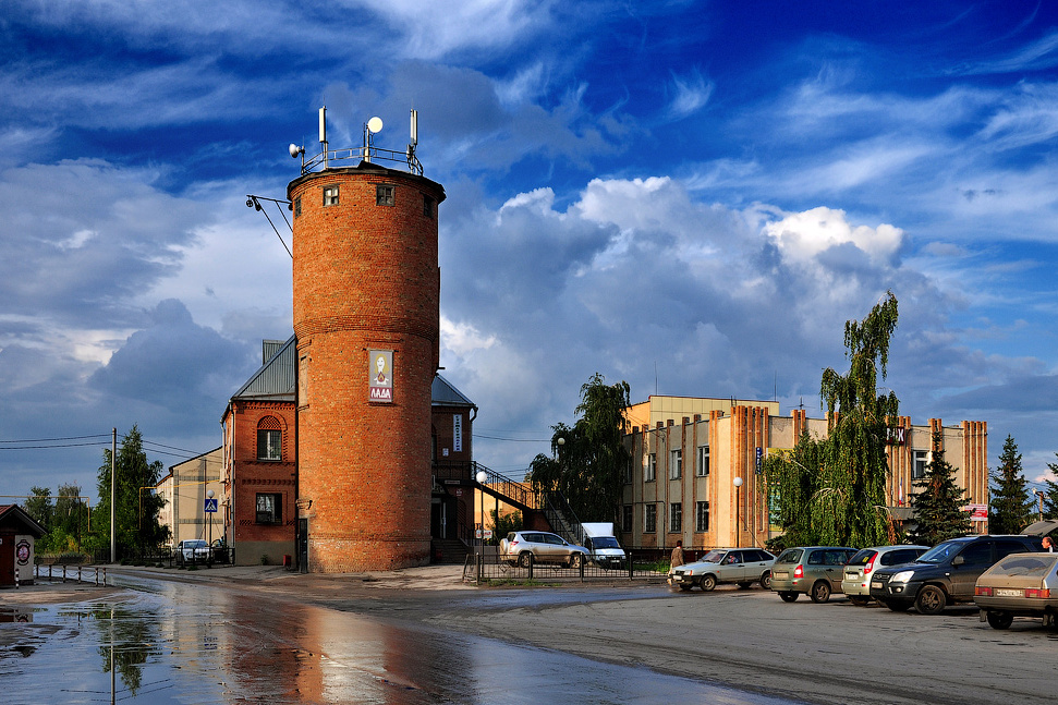 Krasnyy yar village